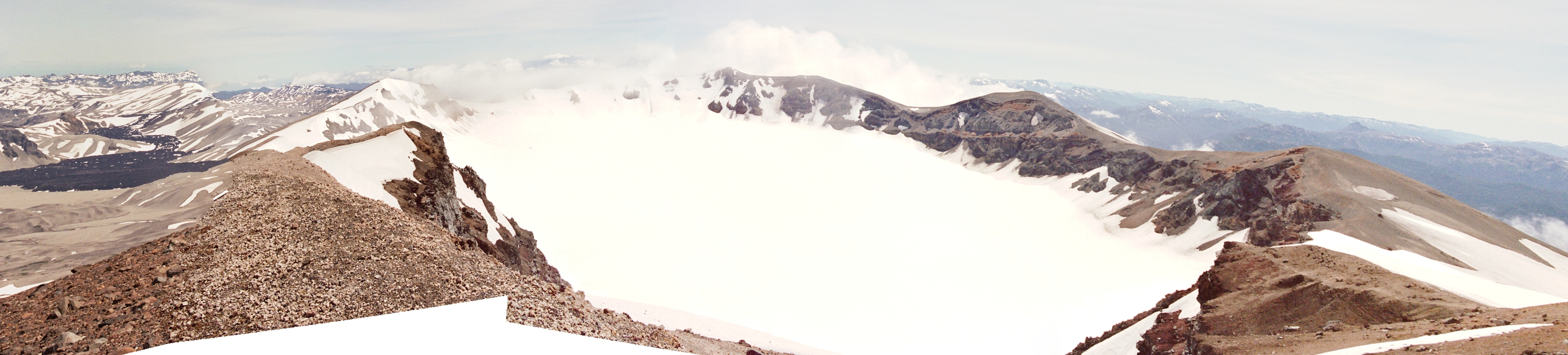 A Panorama of the Puyehue volcano crater. Stitched from 35mm I took on 2004.